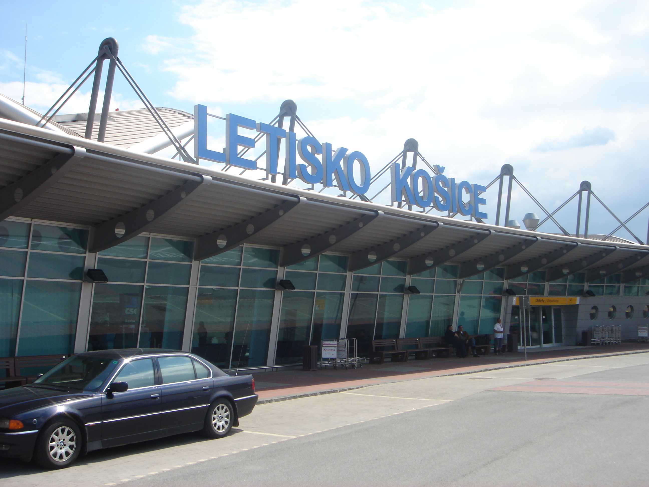 Kosice airport